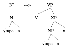 A tree using php syntax tree program that shows the denominalization of the verb tape in English.